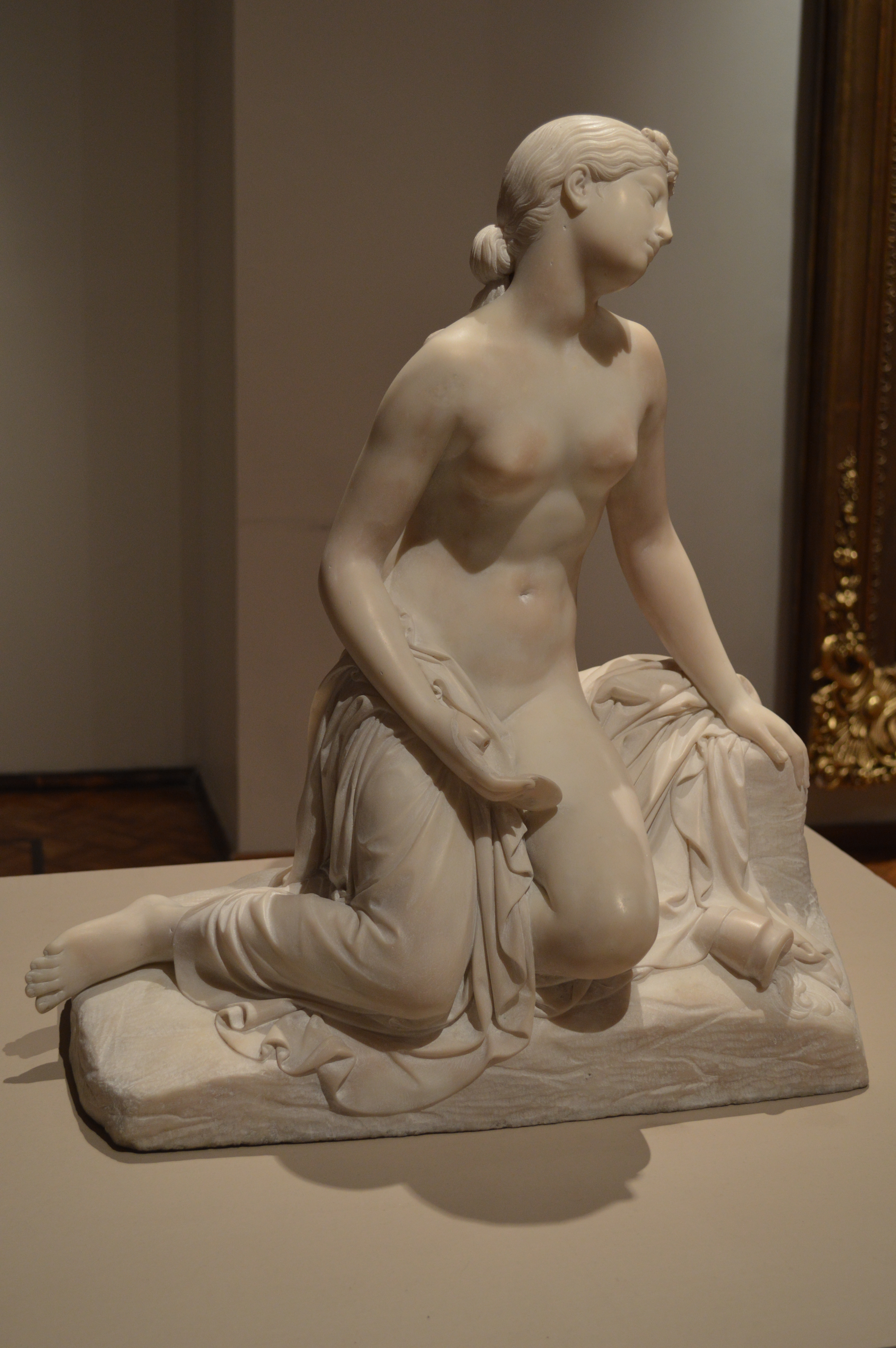 Psyche Fainting by Pietro Tenerani (1834) at the Museo Nacional de San Carlos in Mexico City